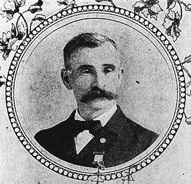 John Jones, Ordinary Seaman, United States Navy. Halftone image published in Deeds of Valor, Volume II, page 40, by the Perrien-Keydel Company, Detroit, 1906. Ordinary Seaman Jones was awarded the Medal of Honor for his conduct while rescuing crewmen from the sinking USS Monitor, off Cape Hatteras during the night of 30-31 December 1862. He was a member of the crew of USS Rhode Island at the time.